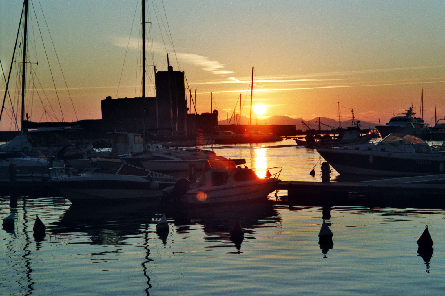 Trapani, port and island of Colombaia, in the background Favignana